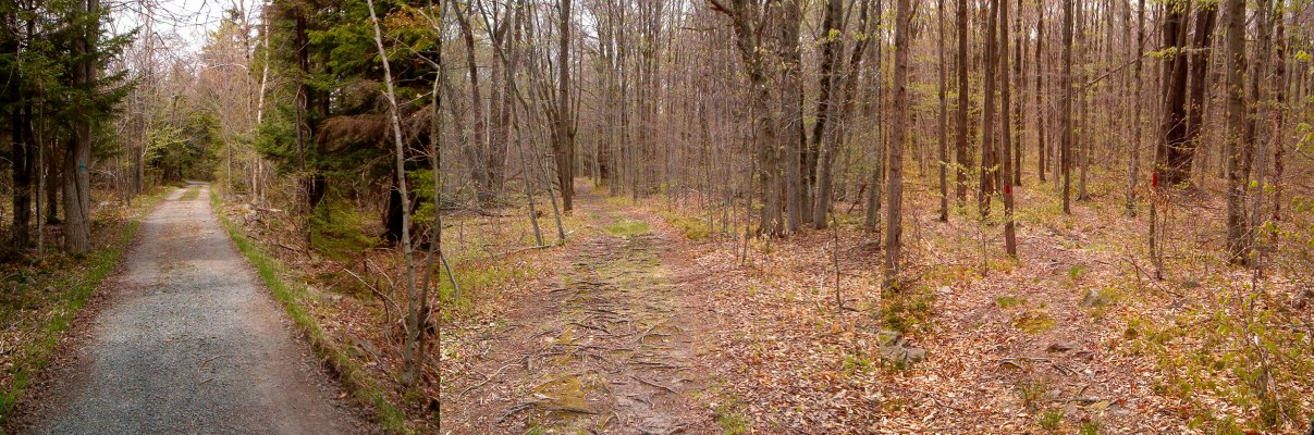 Tobyhanna State Park, from left to right: blue-blazed lakeside trail, on western side of Tobyhanna Lake; yellow-blazed trail, near its divergence from the blue-blazed trail; red-blazed trail, near its divergence from the blue-blazed trail.